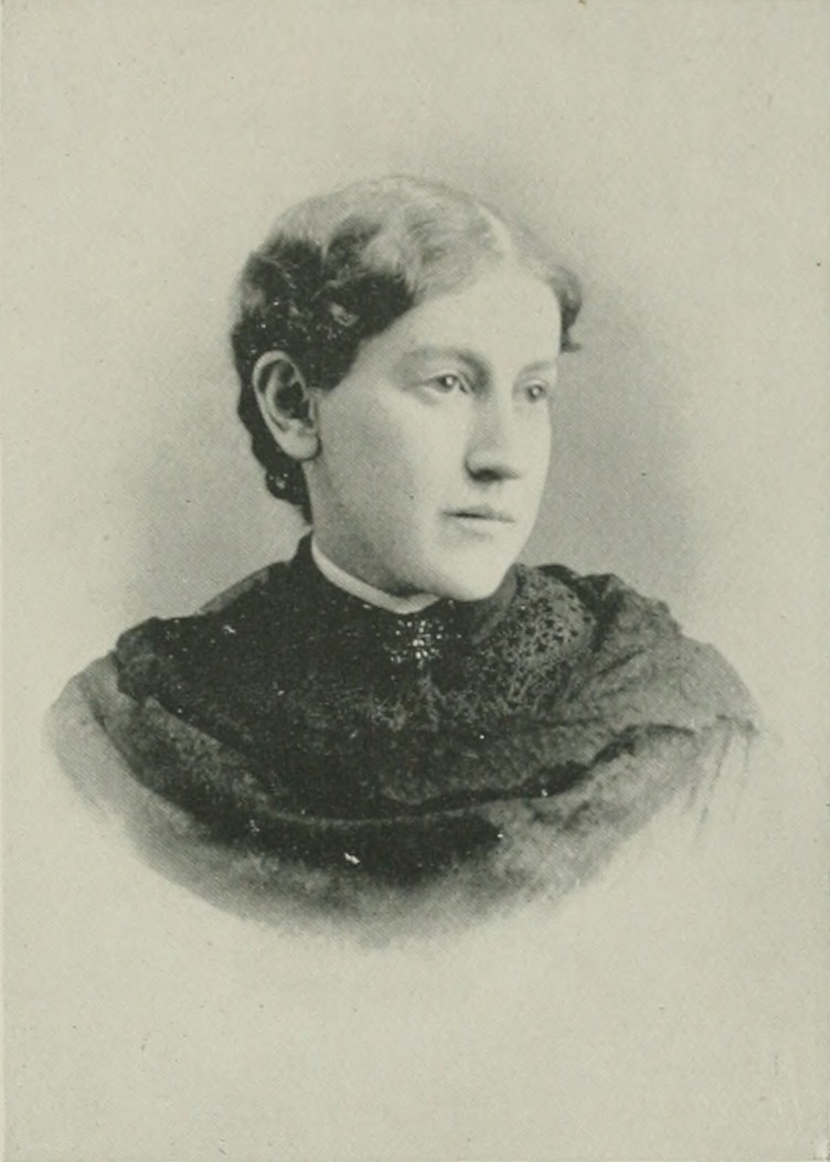 A woman of the century.djvu